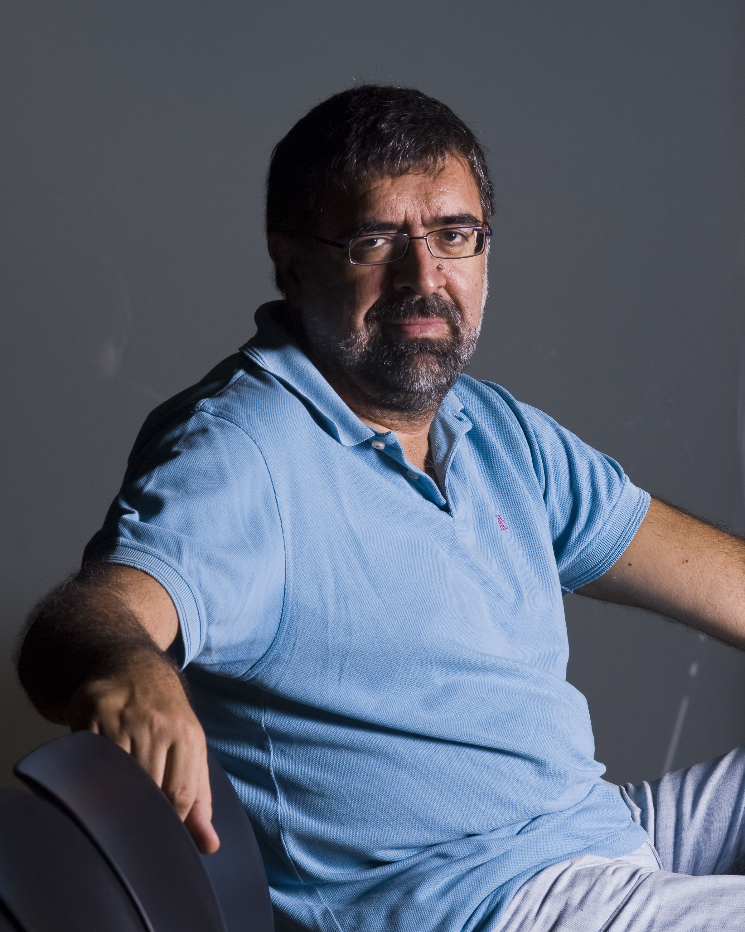 Photograph of Xosé Ramón Pena